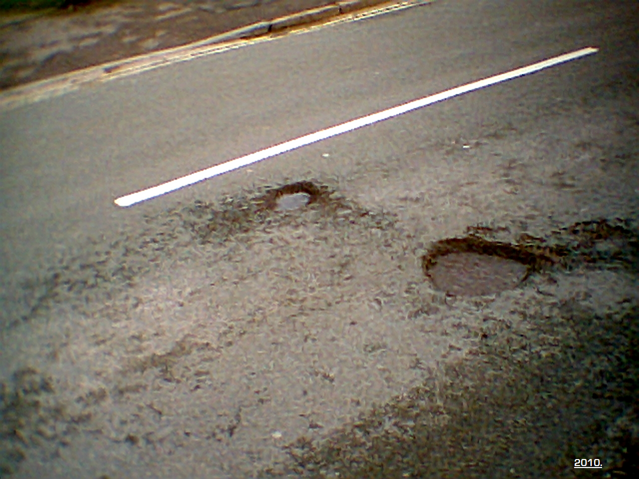 The Banbury Cake and The Banbury Review newspapers did an exposé on the weather induced potholes during the second week of January 2010. They were filled in by May 2010, due to media pressure.